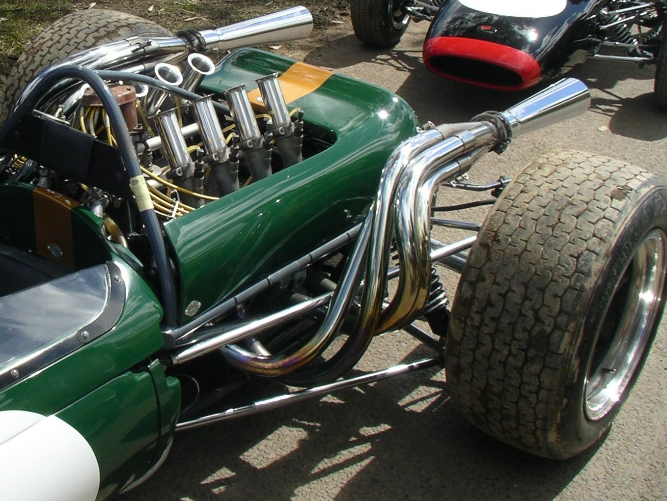 Speed On Tweed 2007. Cropped from original